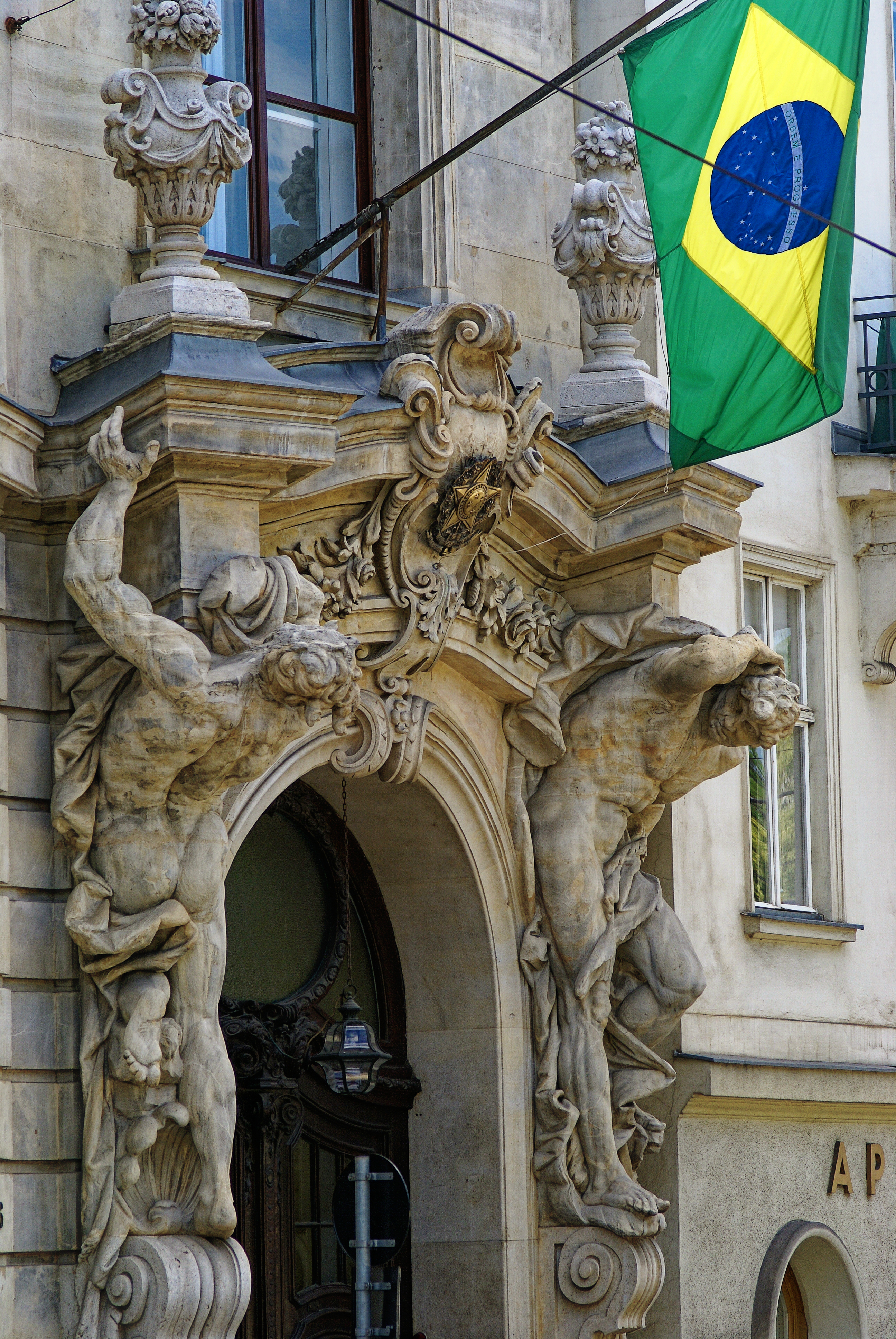 Wien - Prinz Eugen Straße - View West on Brazilian Embassy